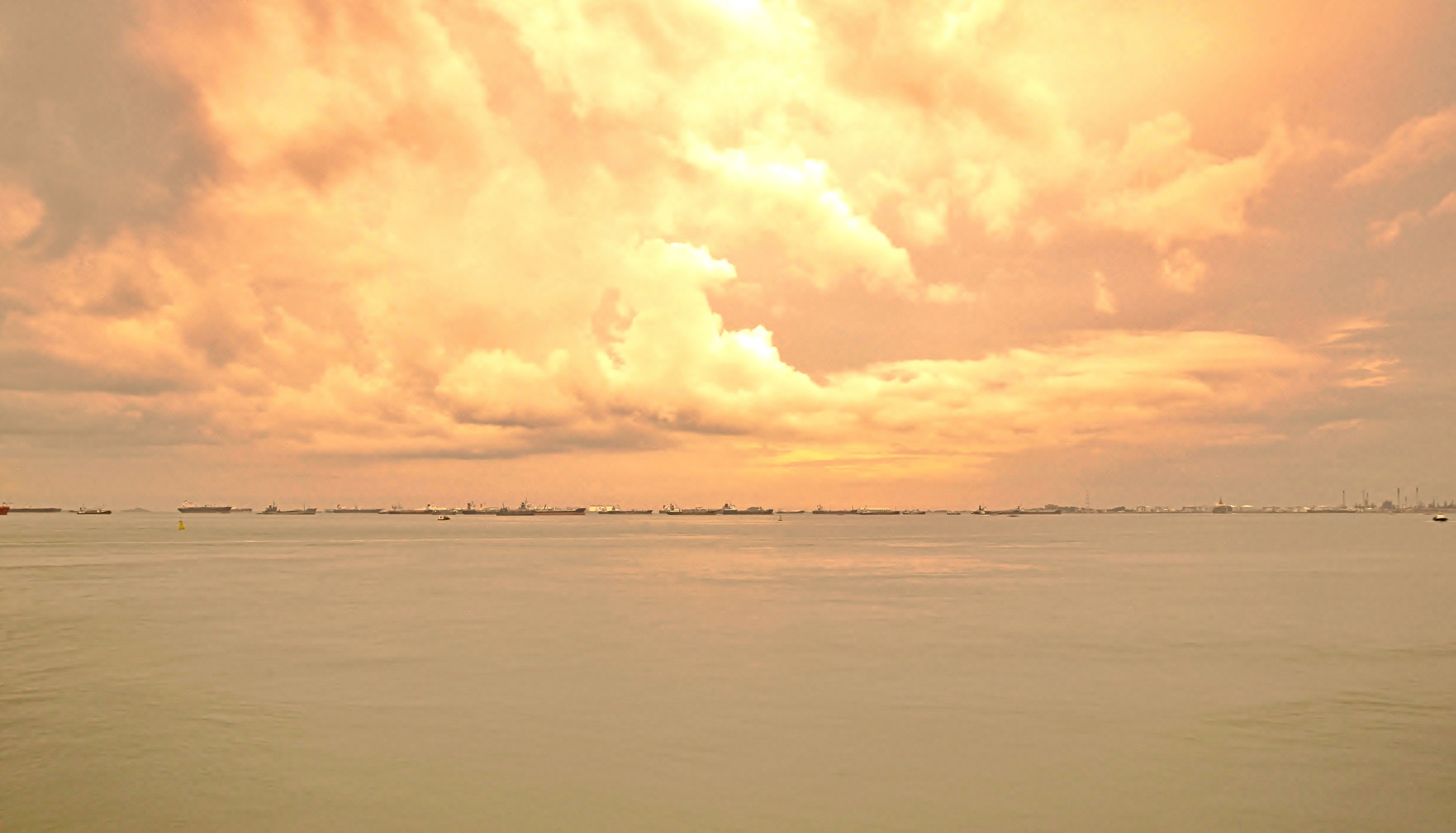 This is an observation from the S'pore Labrador Reserves Park facing the South China Sea between east and west Malaysia, Kalimantan and Singapore where the Natuna Islands and sea are situated.